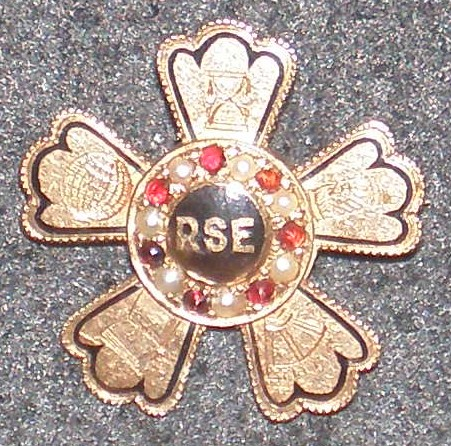 Photo of antique pin dated 1902